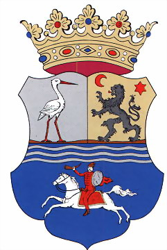 Coat of arms of county of Kingdom of Hungary